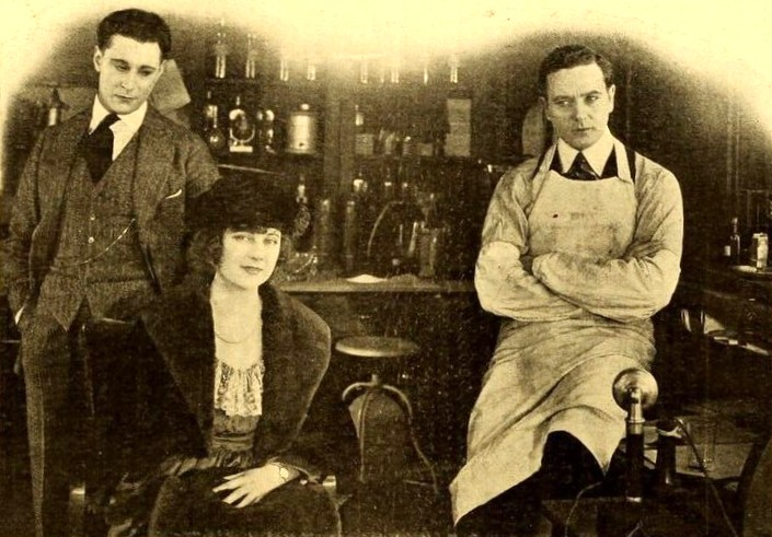 Still from the American film serial The Carter Case (1919) (also known under the working title The Craig Kennedy Serial) with William Pike, Marguerite Marsh, and Herbert Rawlinson, from an ad on page 1096 of the February 22, 1919 Moving Picture World.